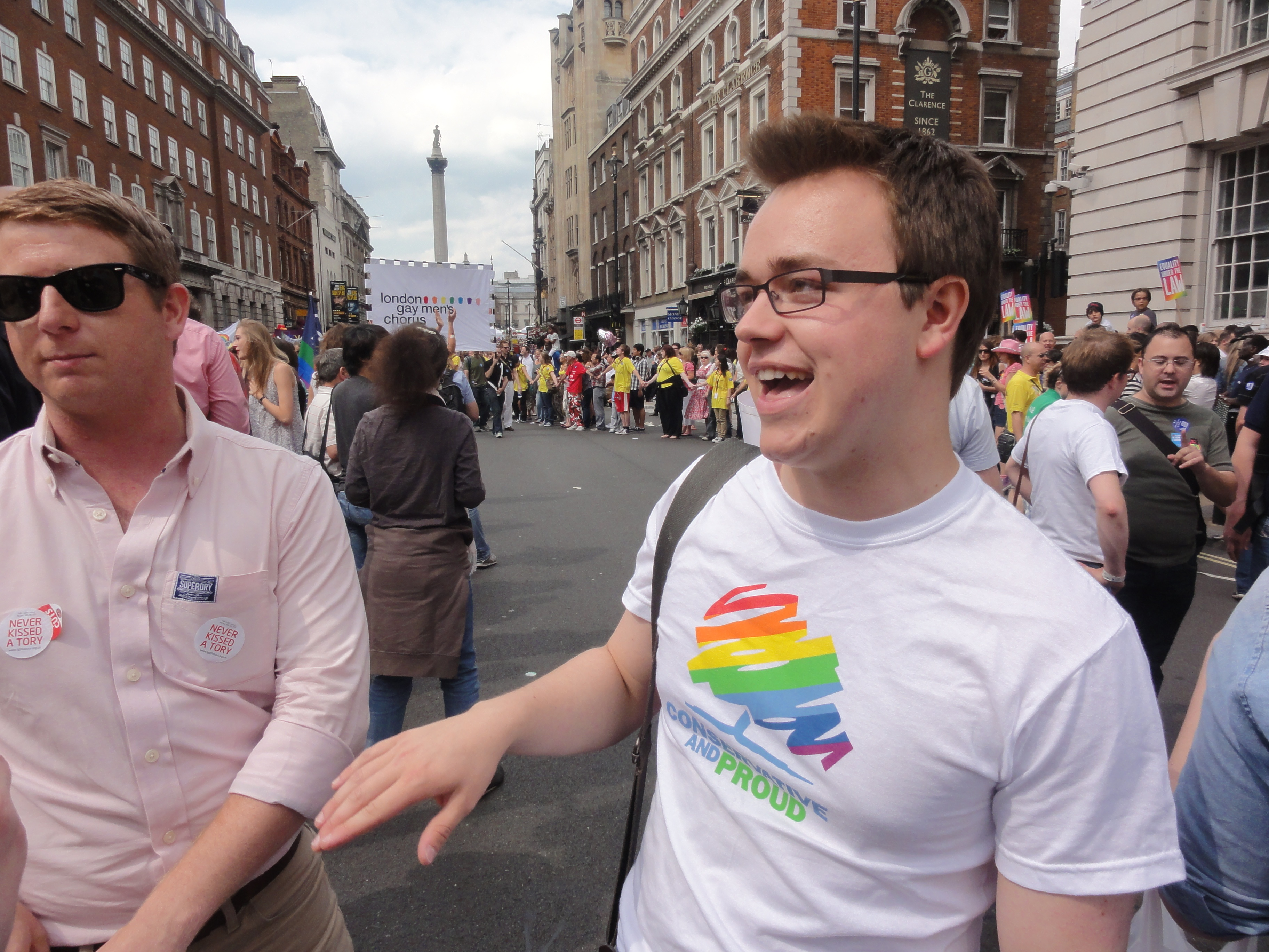 Representatives of LGBTory, the Conservative Party LGBT group, marching down Whitehall.